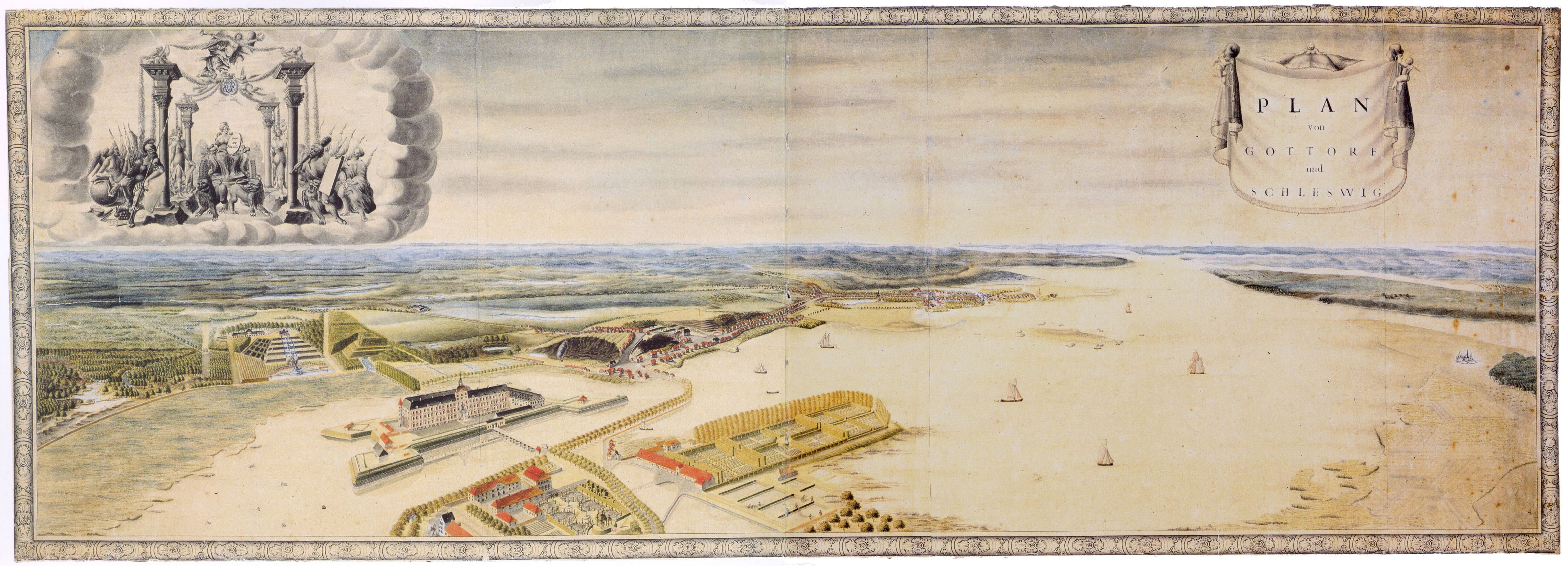 "Plan von Gottorf und Schleswig", Map of Gottorf and Schleswig, painted in water colours